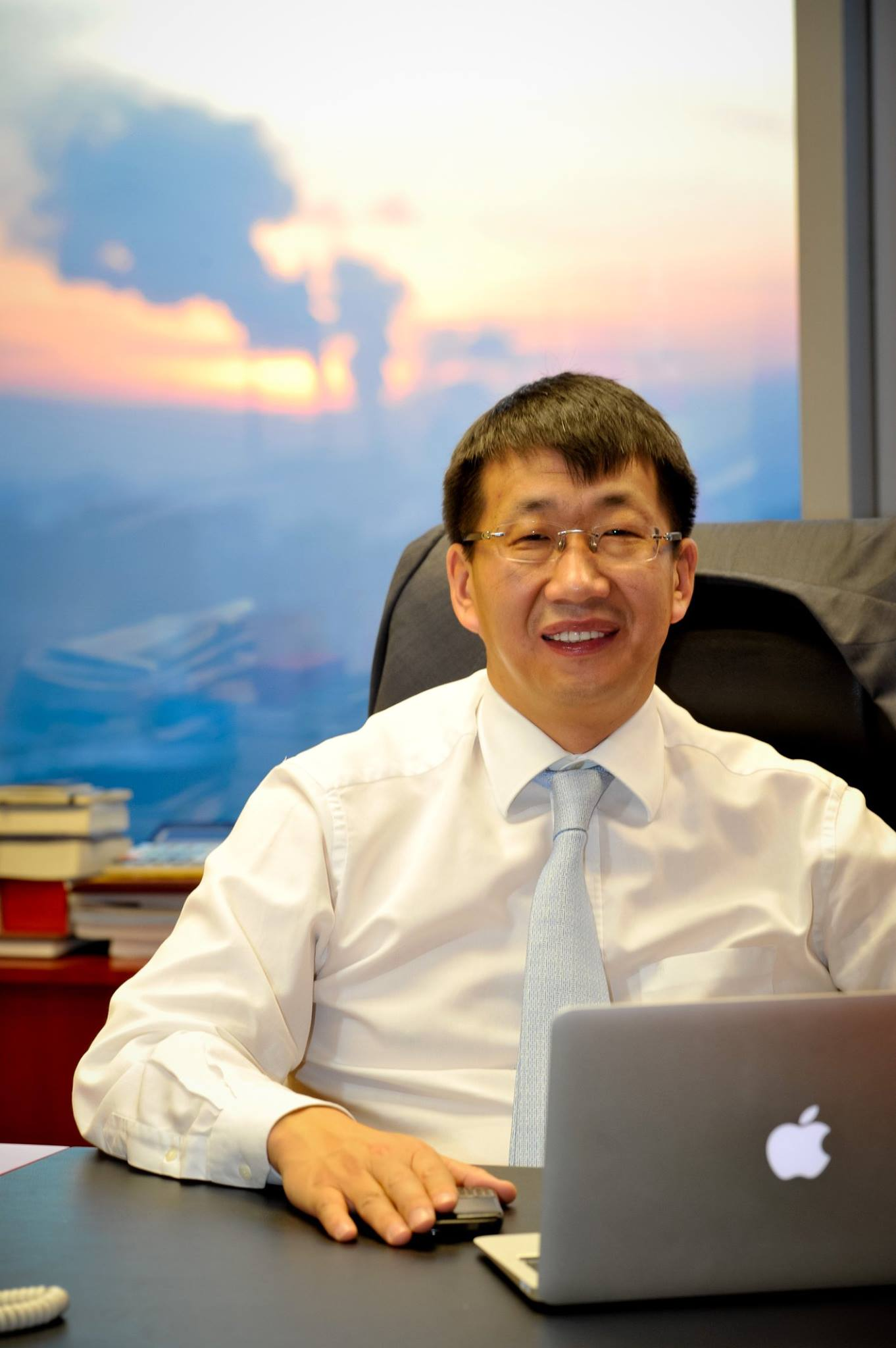 Зураг